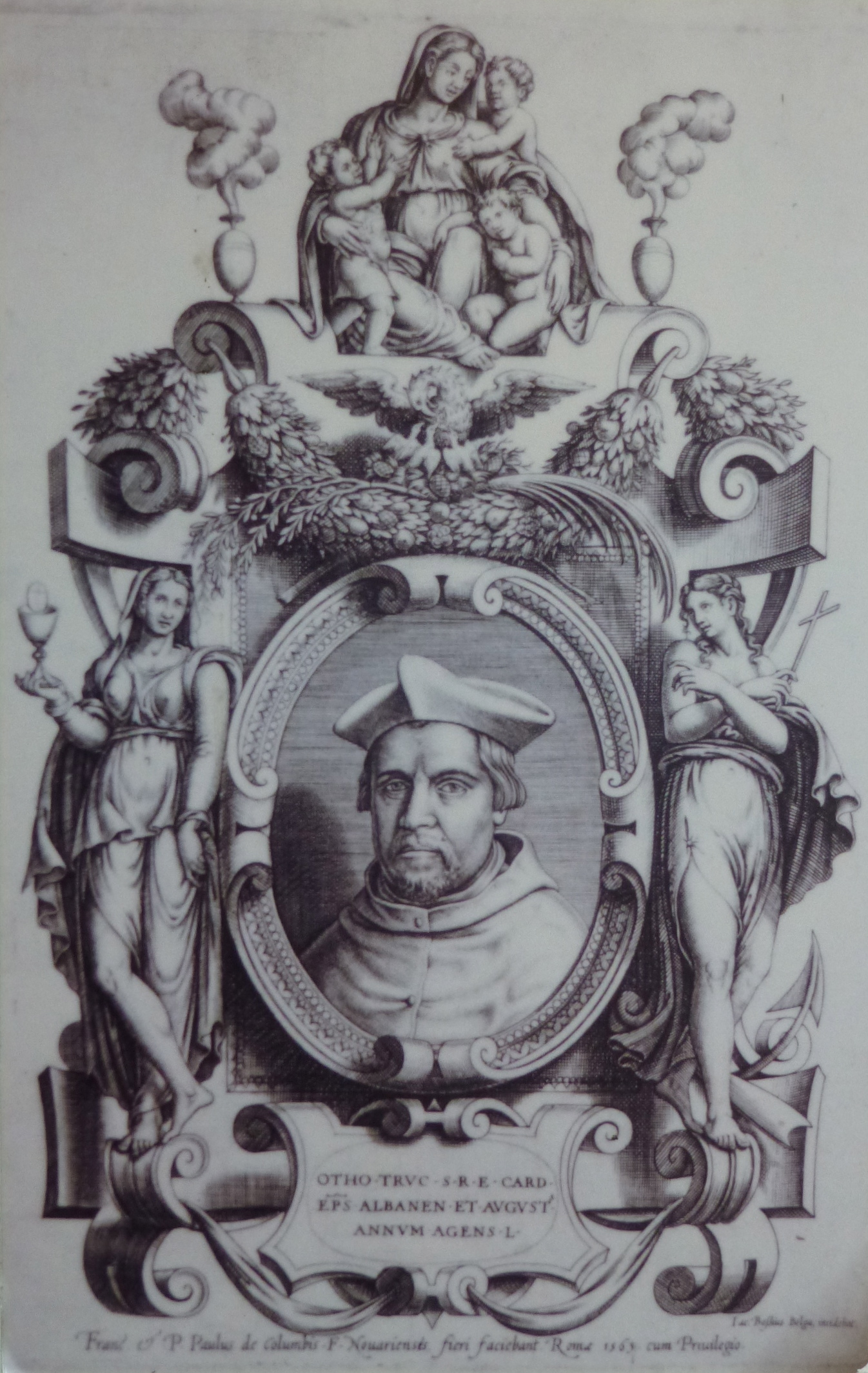 Cardinal Otto of Augsburg (Otto of Waldburg)